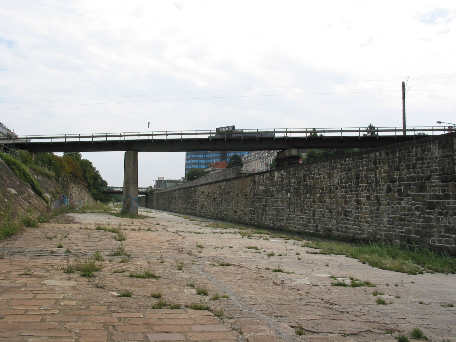 Western bridge of the junczion line over Wien river